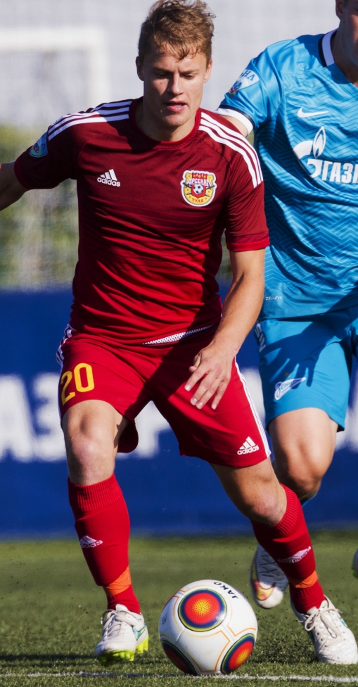 Vadim Steklov